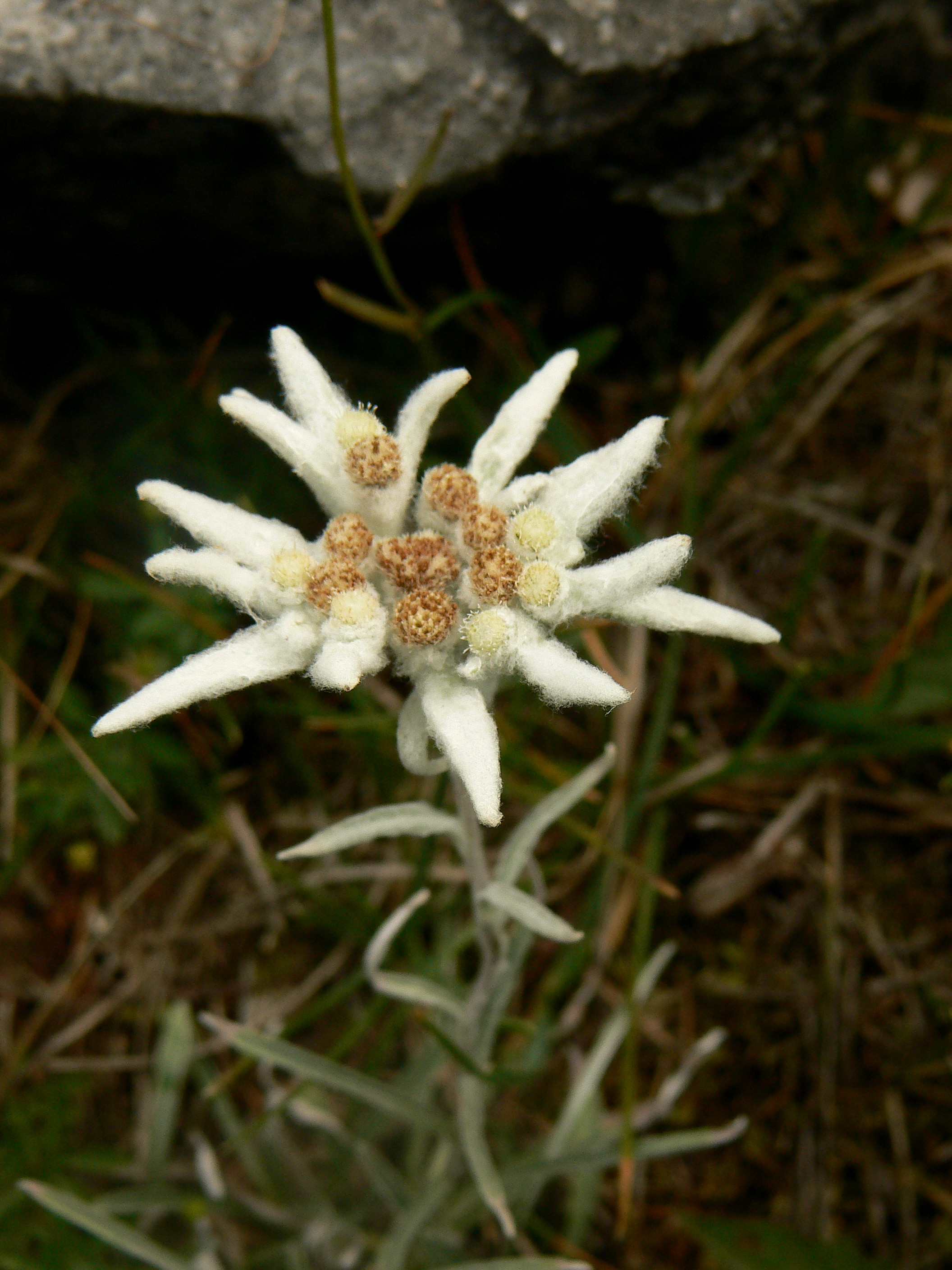 Edelweiss taken in Cold Valley Nature Reserve (Italy), where a particular phenomenon allows the presence of alpine flowers and plants at 300 m of altitude.